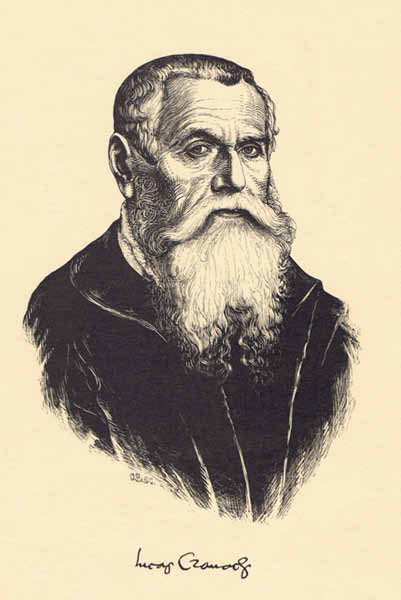 Portrait Lucas Cranach Holzstich, ca.:30,5 x 21,5 cm